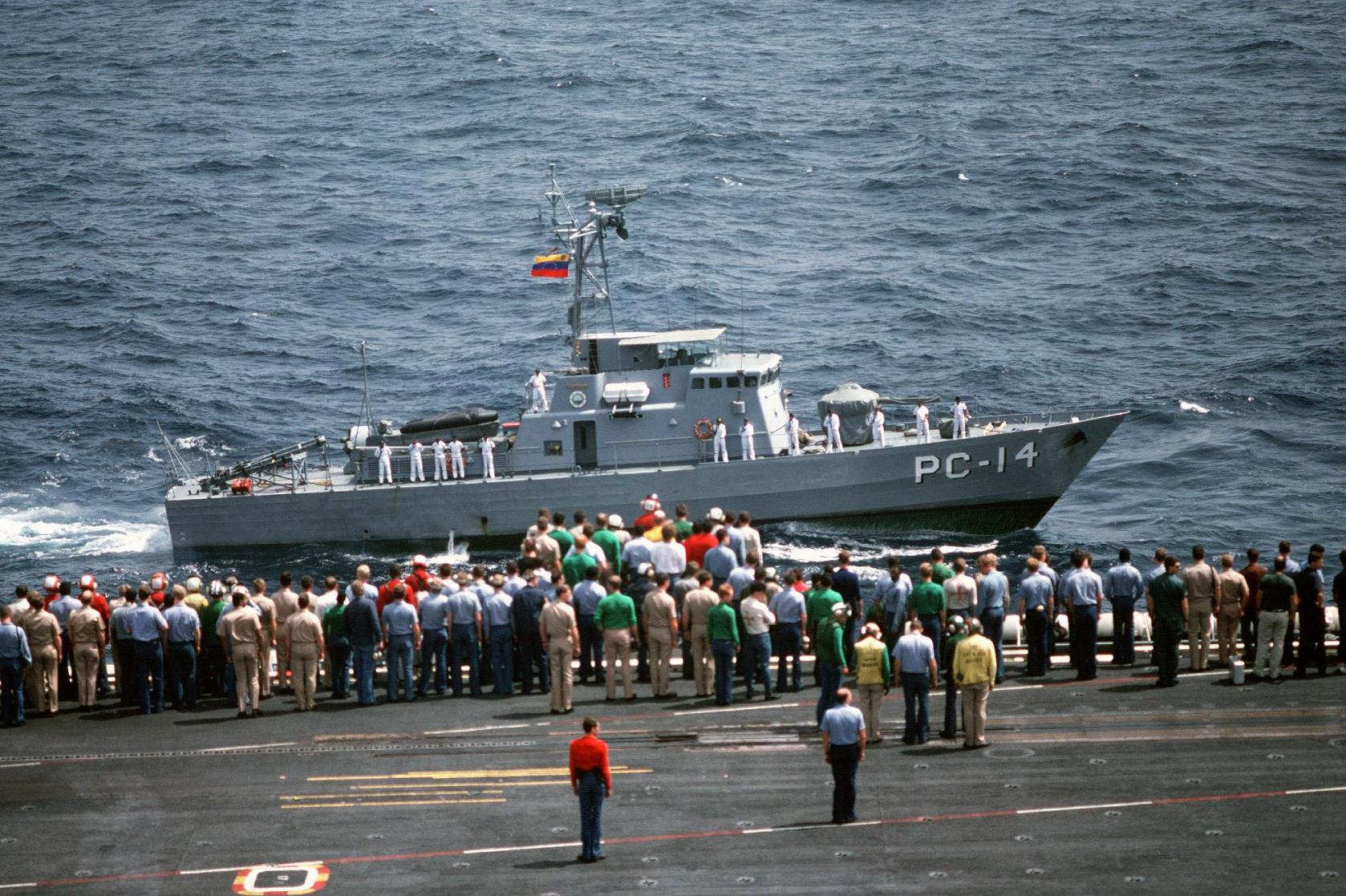 The Venezuelan fast attack craft LIBERTAD (PC 14) passes in review off the port side of the nuclear-powered aircraft carrier USS DWIGHT D. EISENHOWER (CVN 69) near Caracas, Venezuela.